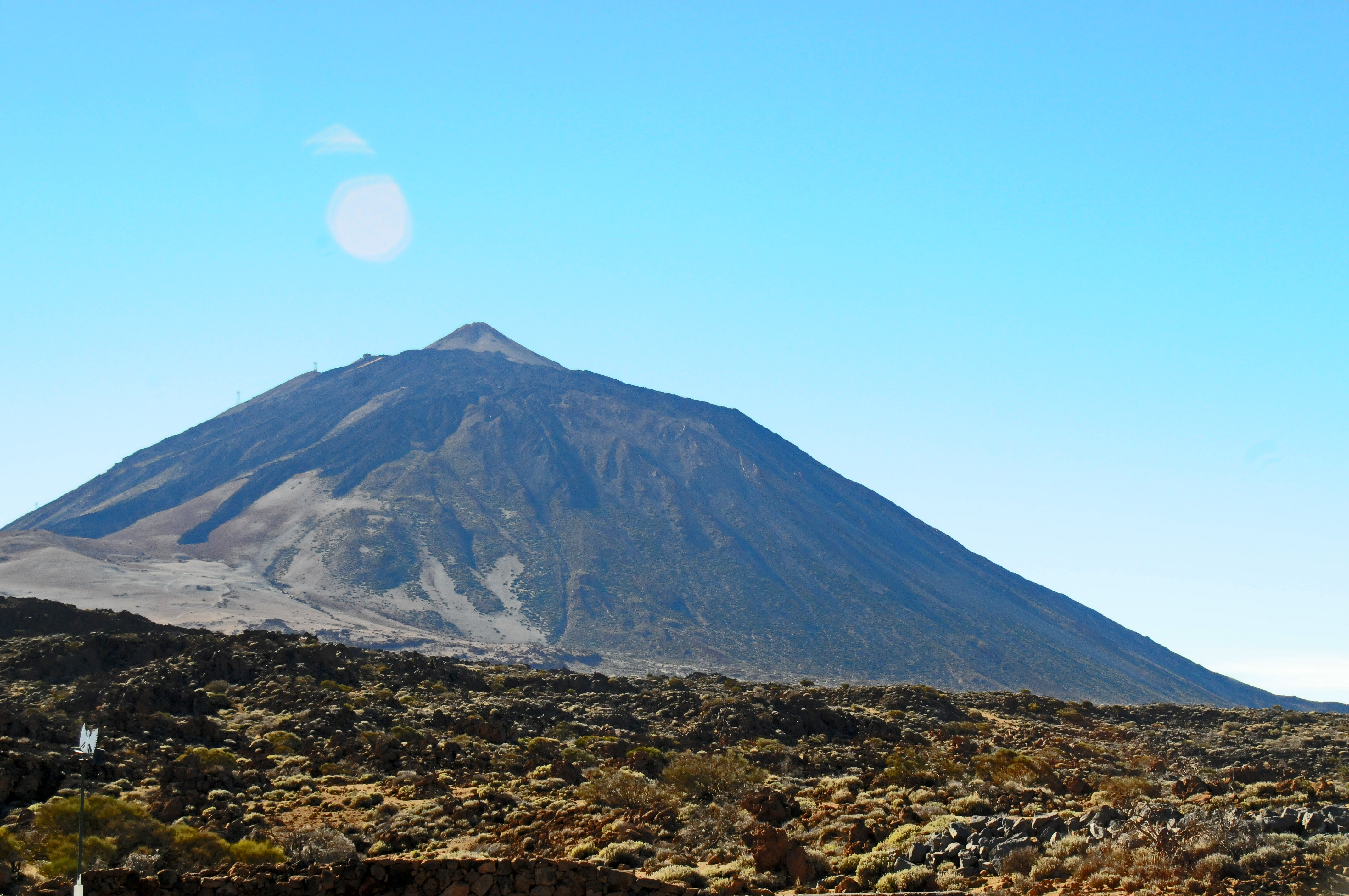 National Park de Tiede, Tenerife, Canary Islands, Spain